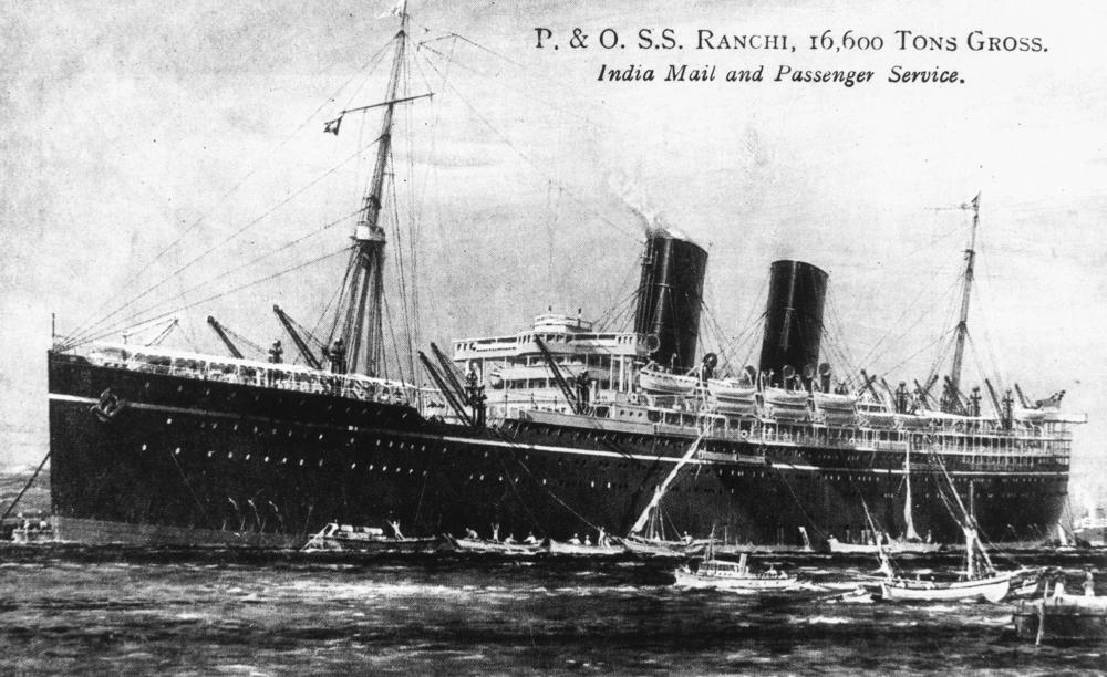 Ranchi (ship) 16,600 gross tons. India mail and passenger service. (Description supplied with photograph.).